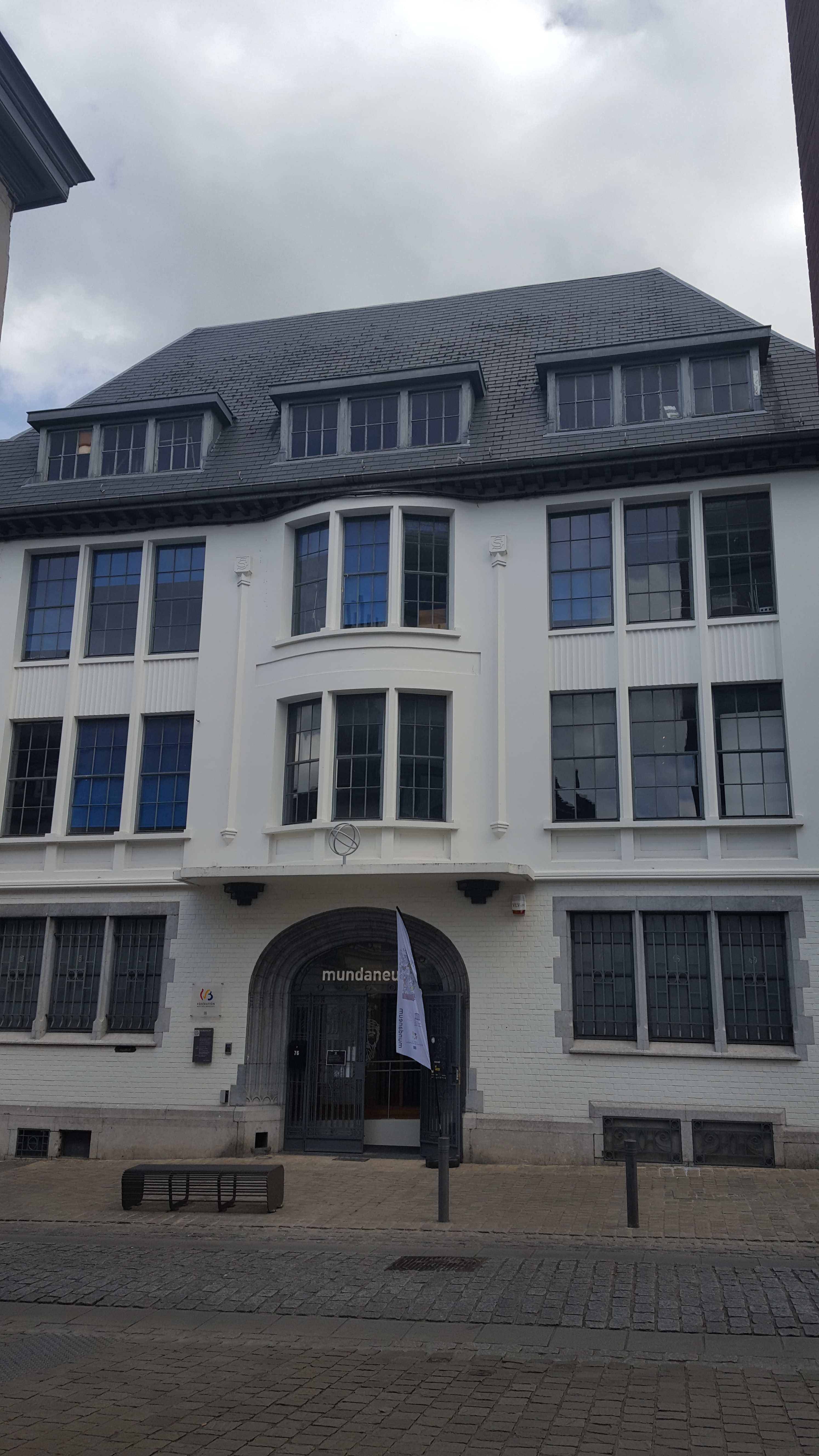 exterior of the Mundaneum, Wiki Loves Art, Mons, Belgium